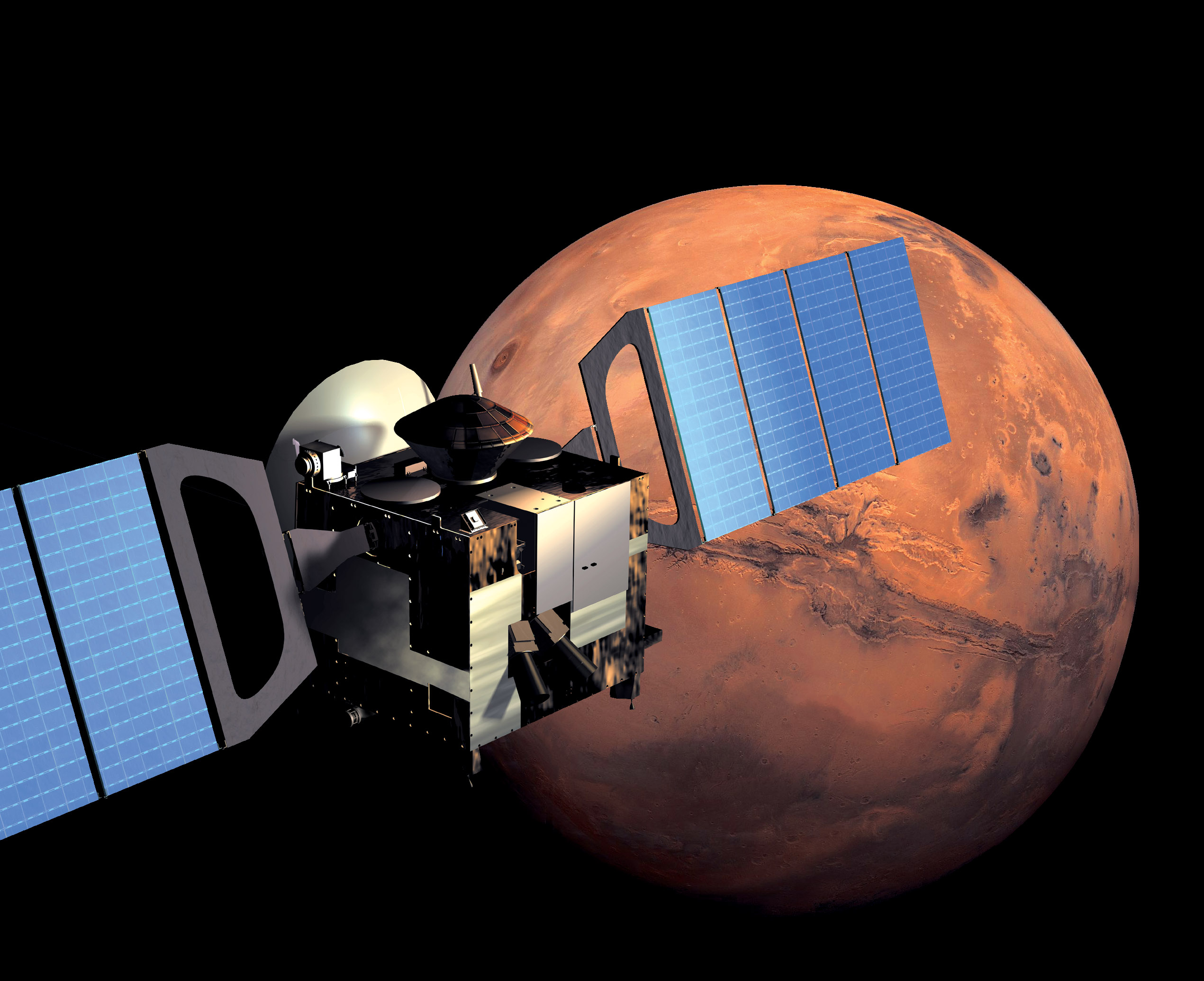 Artist's impression of ESA's Mars Express.